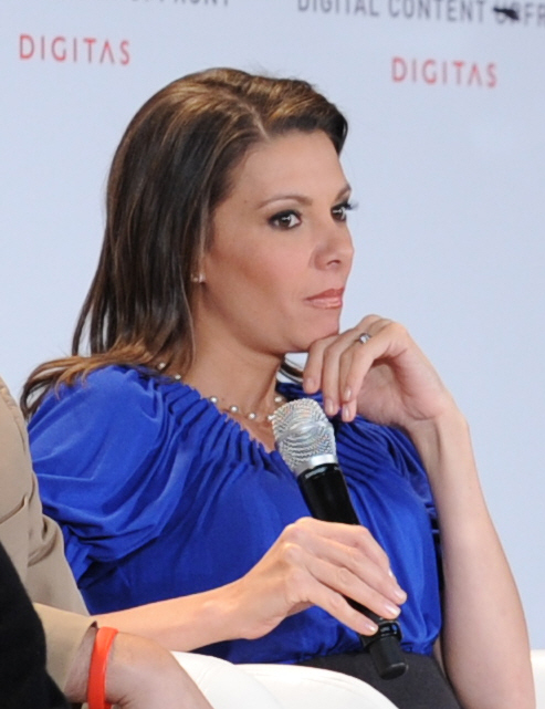 The Fandomonium Panel The Fandomonium panel, moderated by Sree Sreenivasan, Professor and Dean of Student Affairs, Columbia Graduate School of Journalism. Panelists included: - Pete Wentz, Grammy-Nominated Musician, Activist, and Entrepreneur - Michael Wayne, Co-Founder and CEO, DECA - Kiran Chetry, Anchor, CNN's American Morning - Charles Hunter, Co-Founder of Mudlark and Producer of Such Tweet Sorrow - Howard Friedman, SVP, Marketing, Kraft